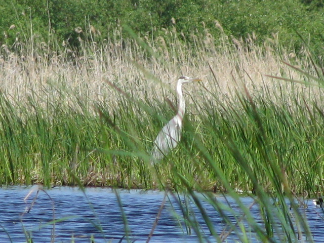 Hallhaigur Piirissaarel.